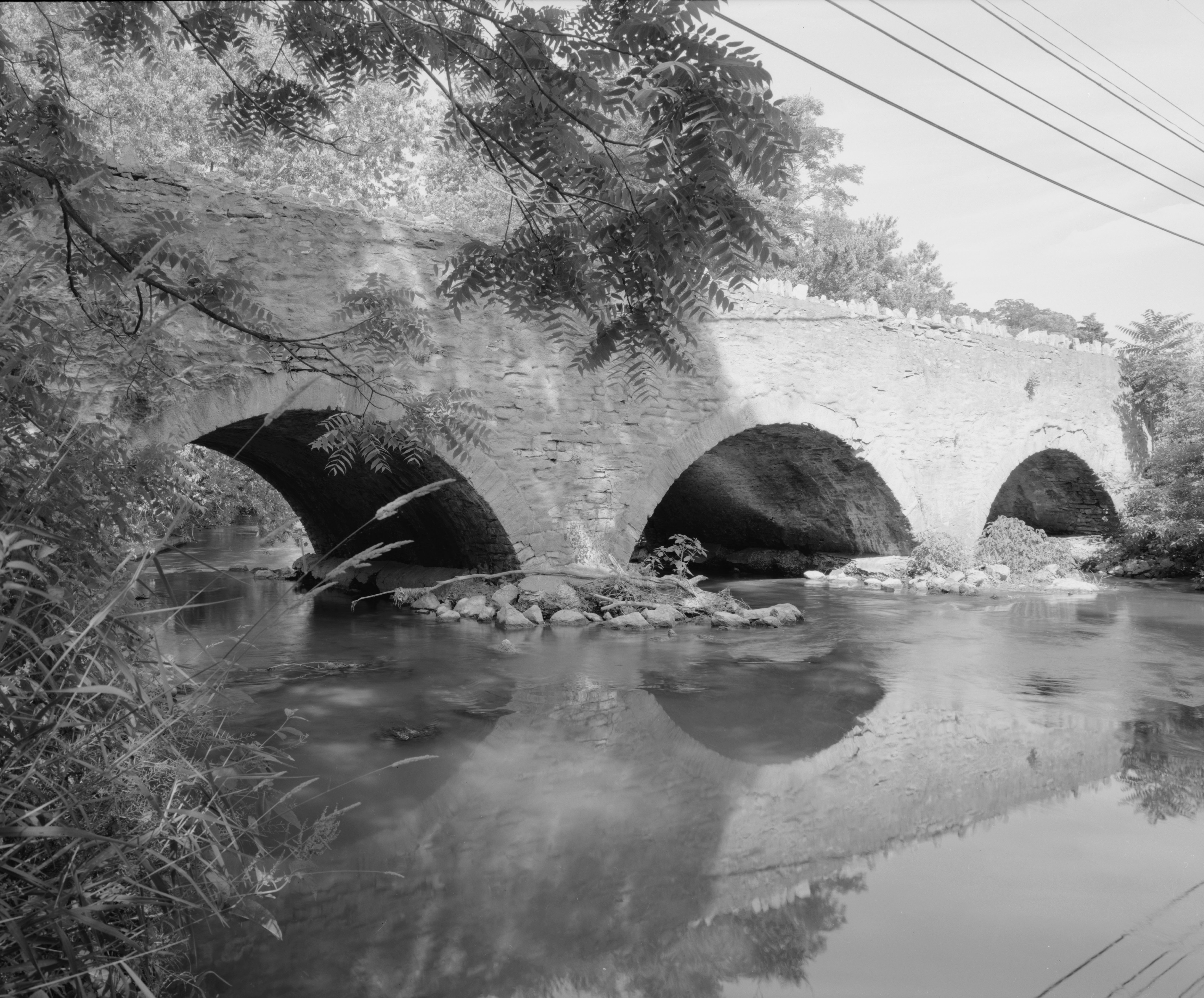 3/4 VIEW FROM WEST. - "S" Bridge, Spanning Tulpehocken Creek at State Route 3061, Stouchsburg, Berks County, PA